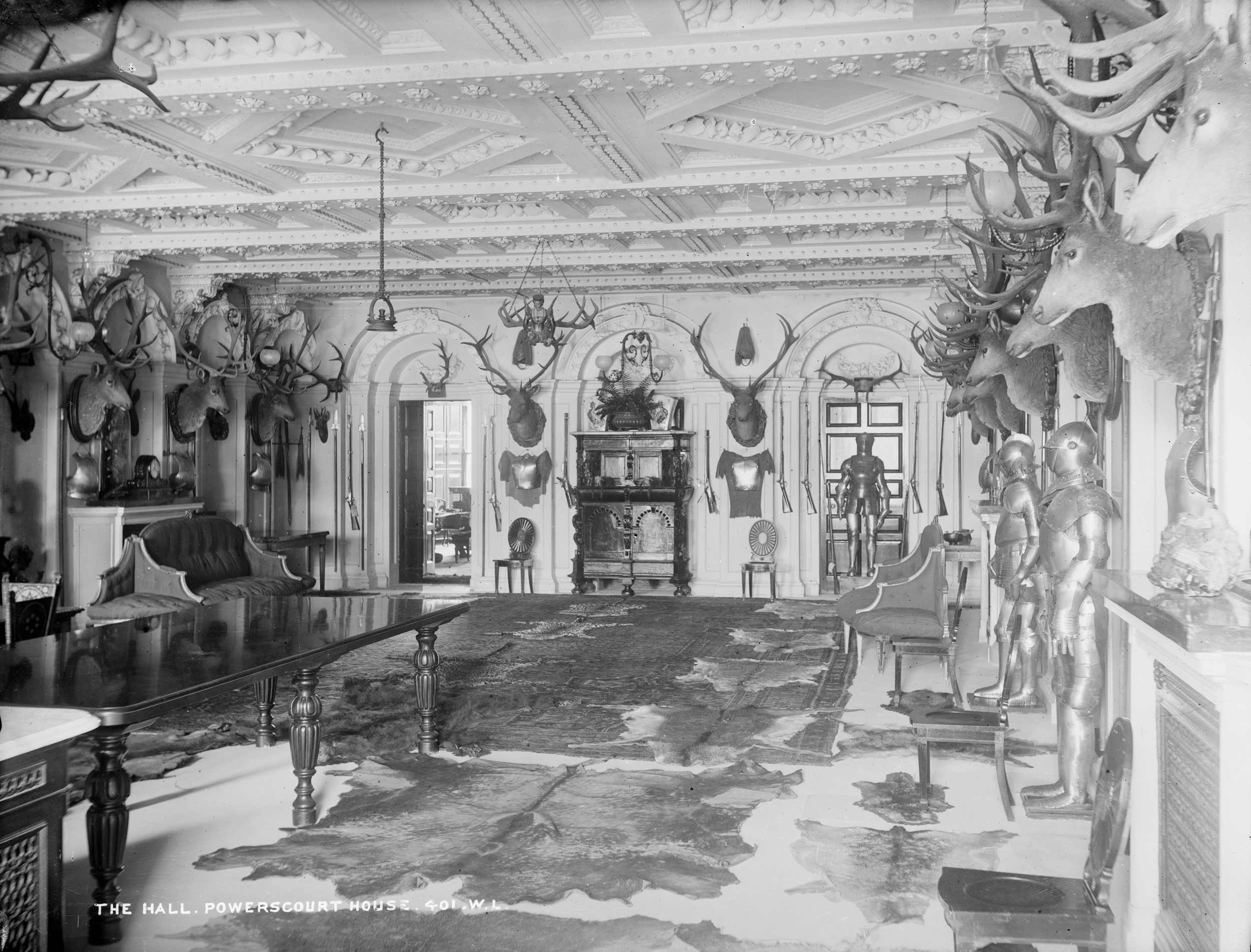 Was tempted to call this one The Killing Fields… Photographer: Almost certainly Robert French of Lawrence Photographic Studios, Dublin Date: 1890s?? NLI Ref.: L_ROY_00401